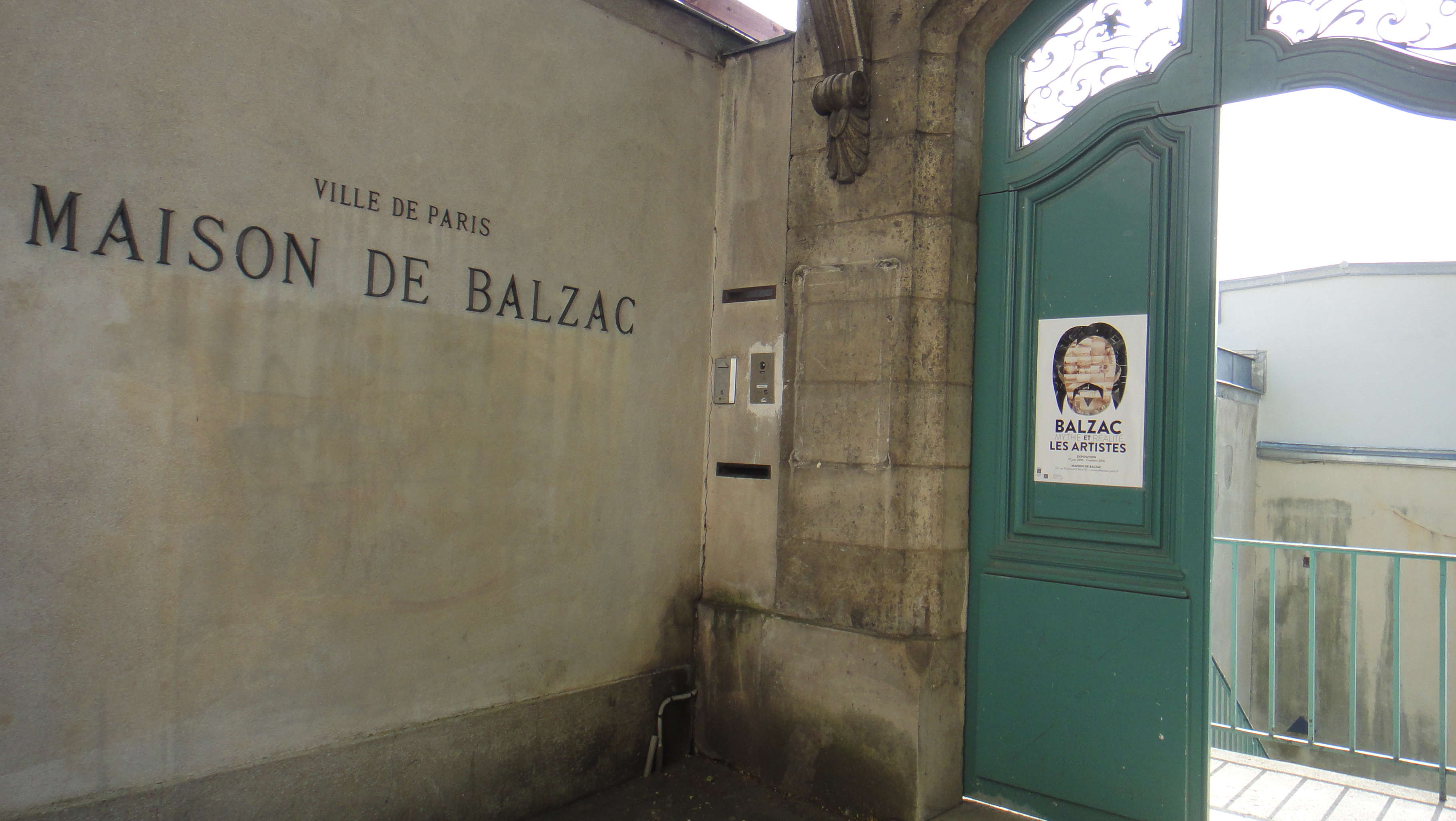 The gate of the Balzac's house, in France.